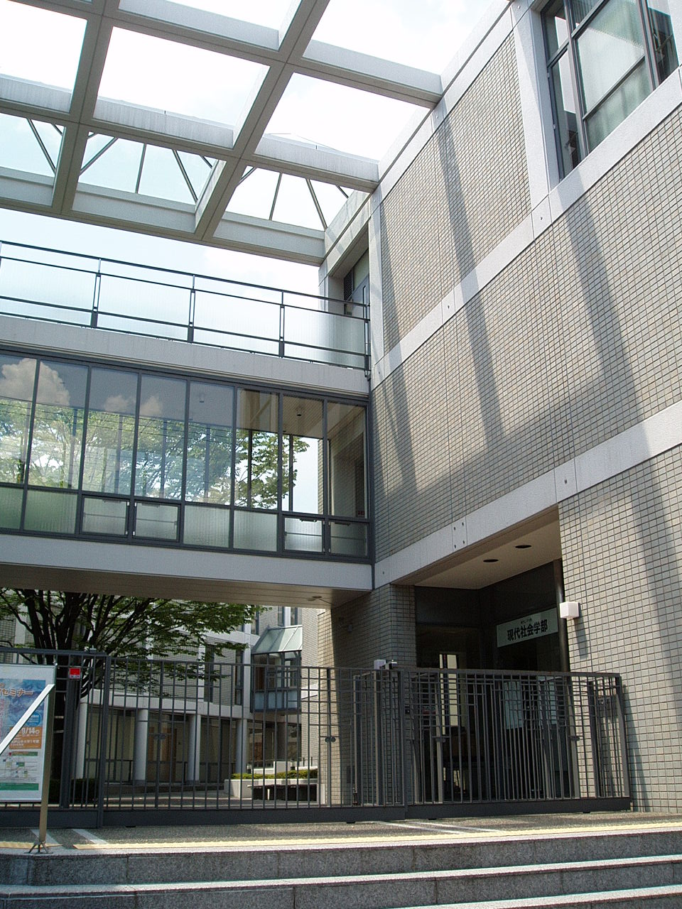 Bldg. #3 of Kobe Yamate University located in Chuo-ku, Kobe, Hyogo Prefecture, Japan.